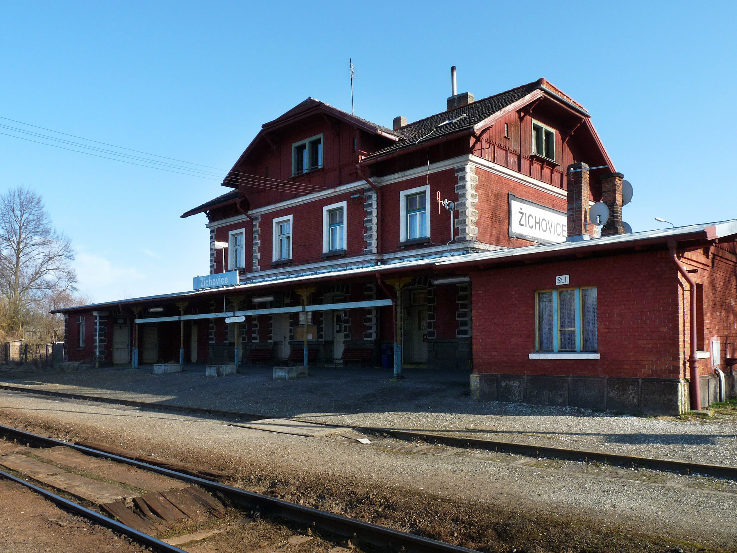 Railway station in the village of Žichovice, Klatovy District, Czech Republic